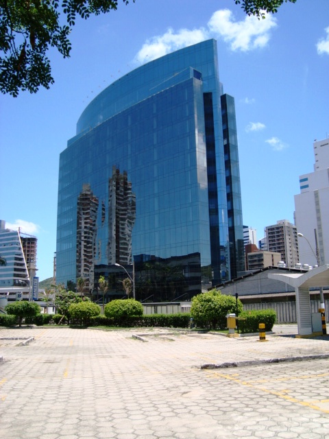 VRF System - Greenwich Tower